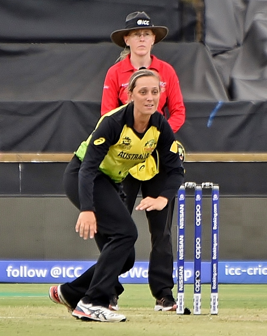 Ashleigh Gardner bowling for Australia against Sri Lanka during their 2020 ICC Women's T20 World Cup match at the WACA Ground in Perth, Australia